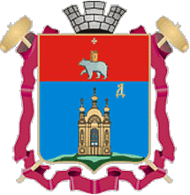 Coat of Arms of Dobryansky rayon, Perm krai, Russia, 2006